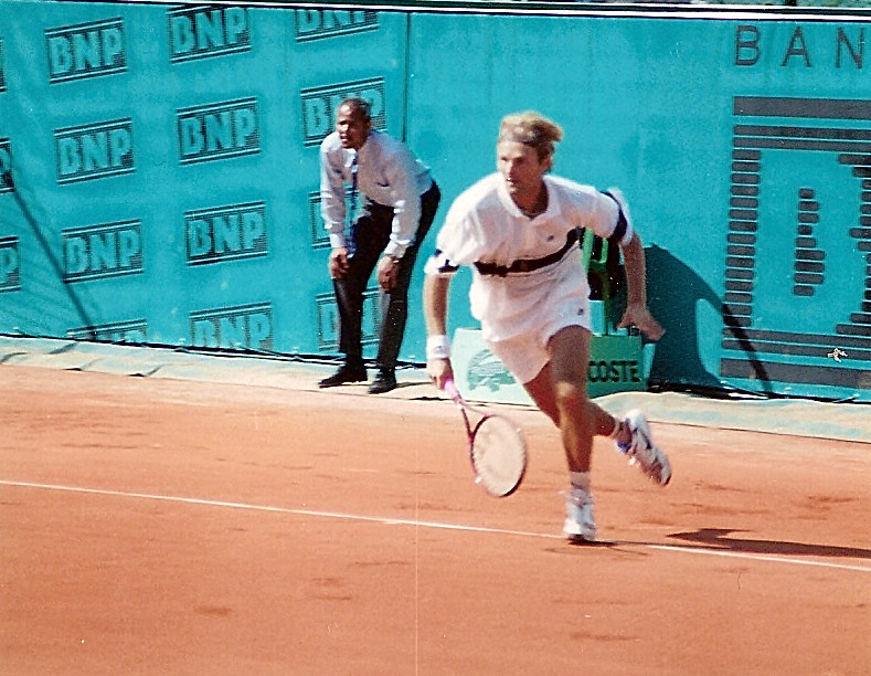 French tennisman Thierry Champion, during his match against Jamie Morgan in the 1st round of the 1994 French Open.